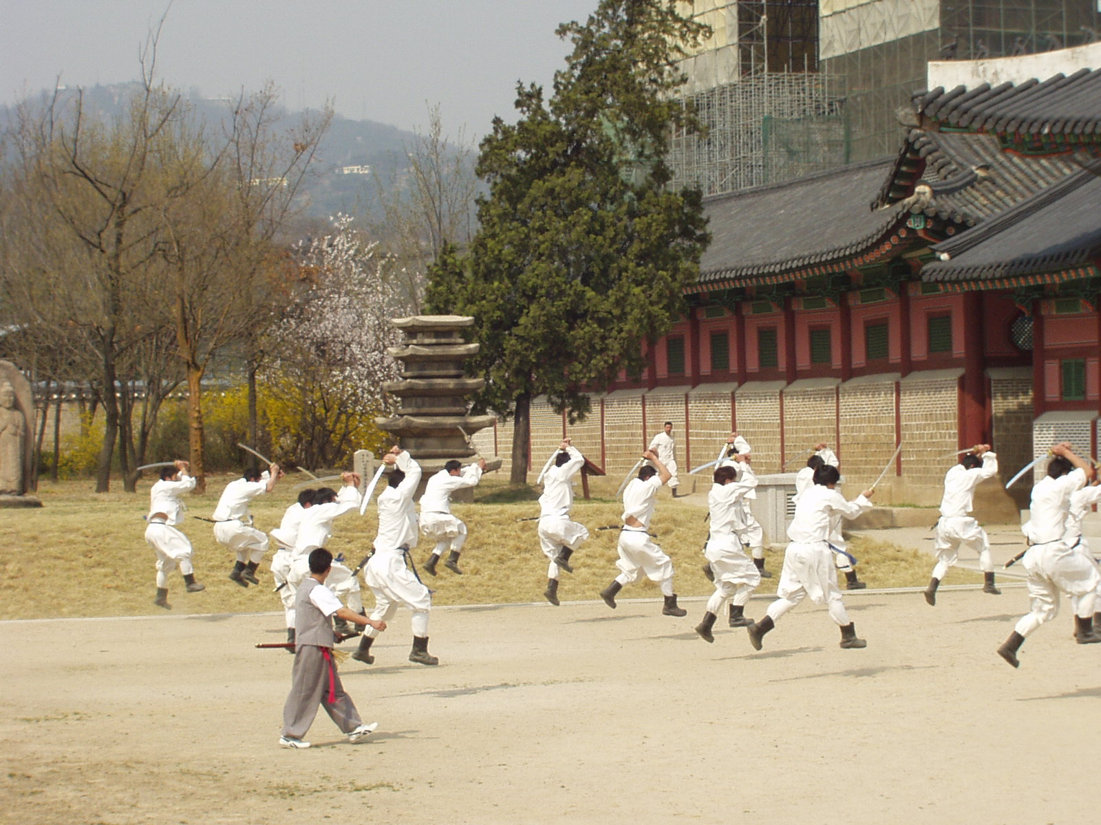 Seoul, South Korea